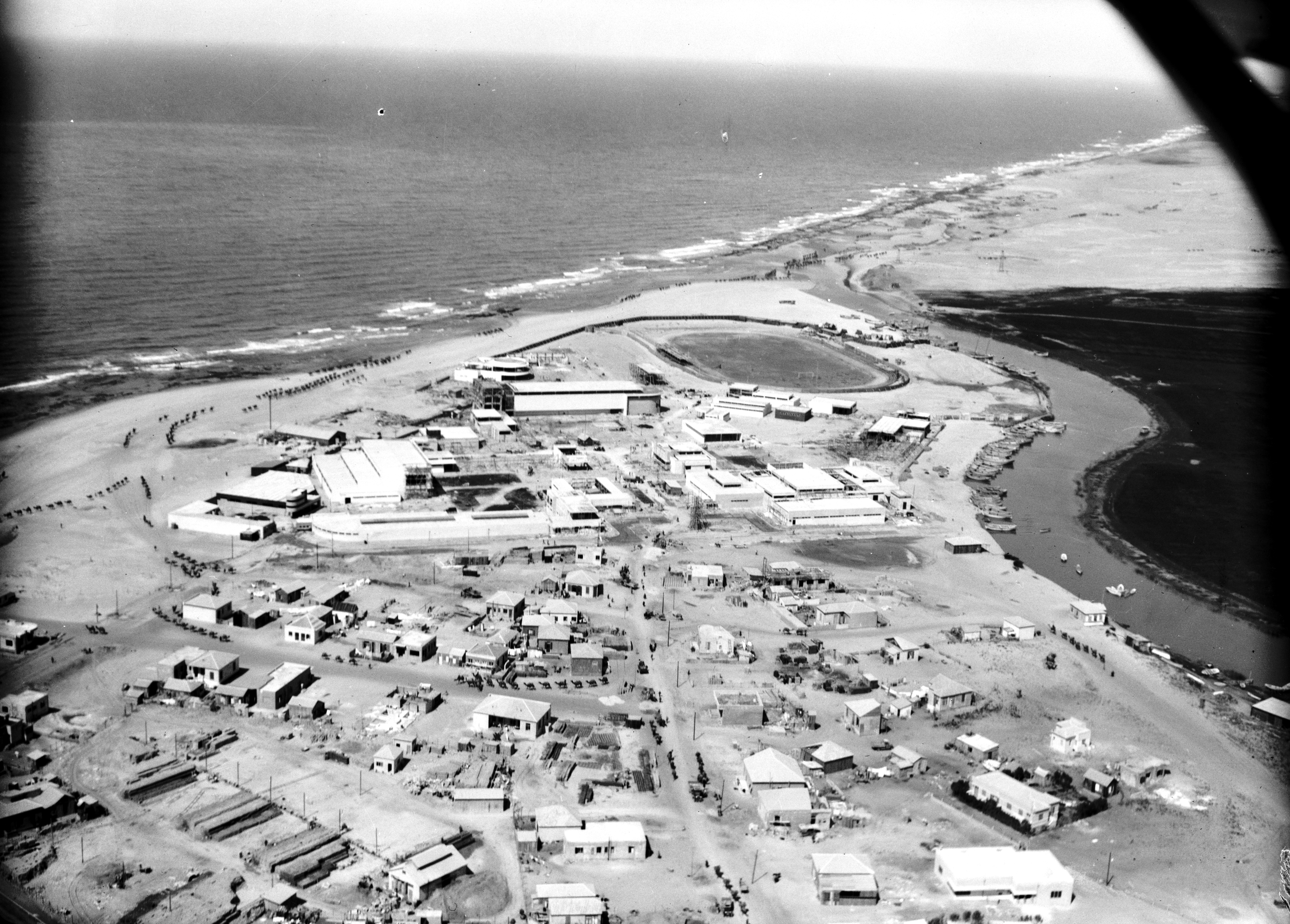 Air views of Tel Aviv